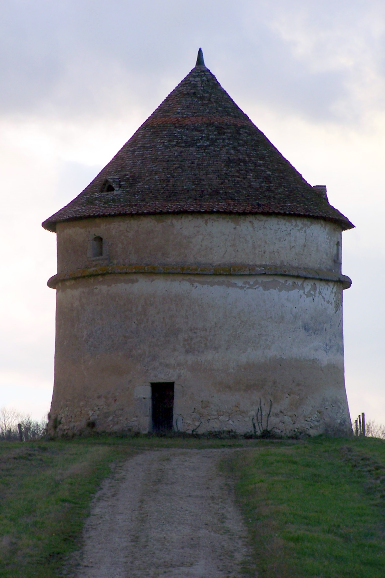 Dovecote of the castle of Pommiers in Saint-Félix-de-Foncaude (Gironde, France)